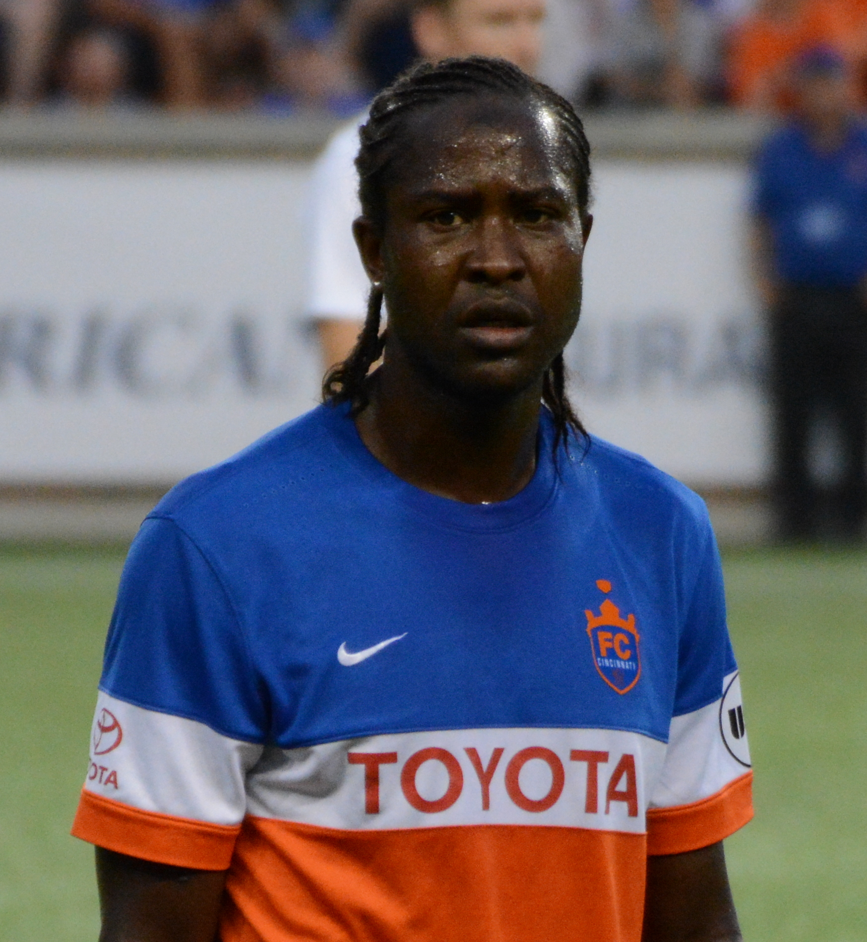 Djiby Fall Taken during a match between FC Cincinnati and Tampa Bay Rowdies at Nippert Stadium in Cincinnati, USA on April 19, 2017.